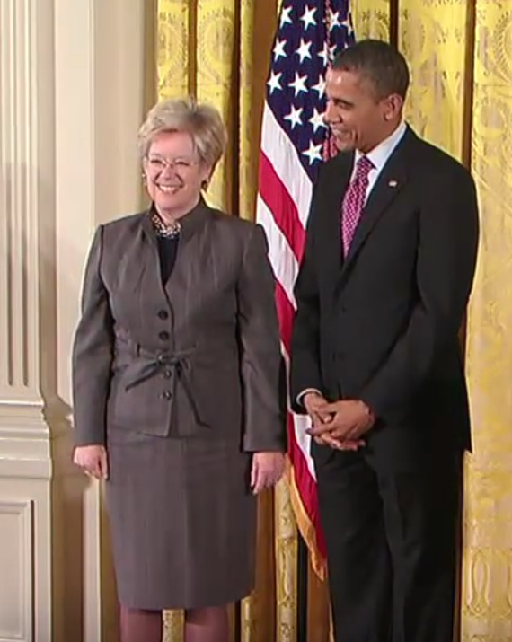 American astronomer Sandra Faber (left) accepts the National Medal of Science from U.S. President Barack Obama, February 1, 2013.